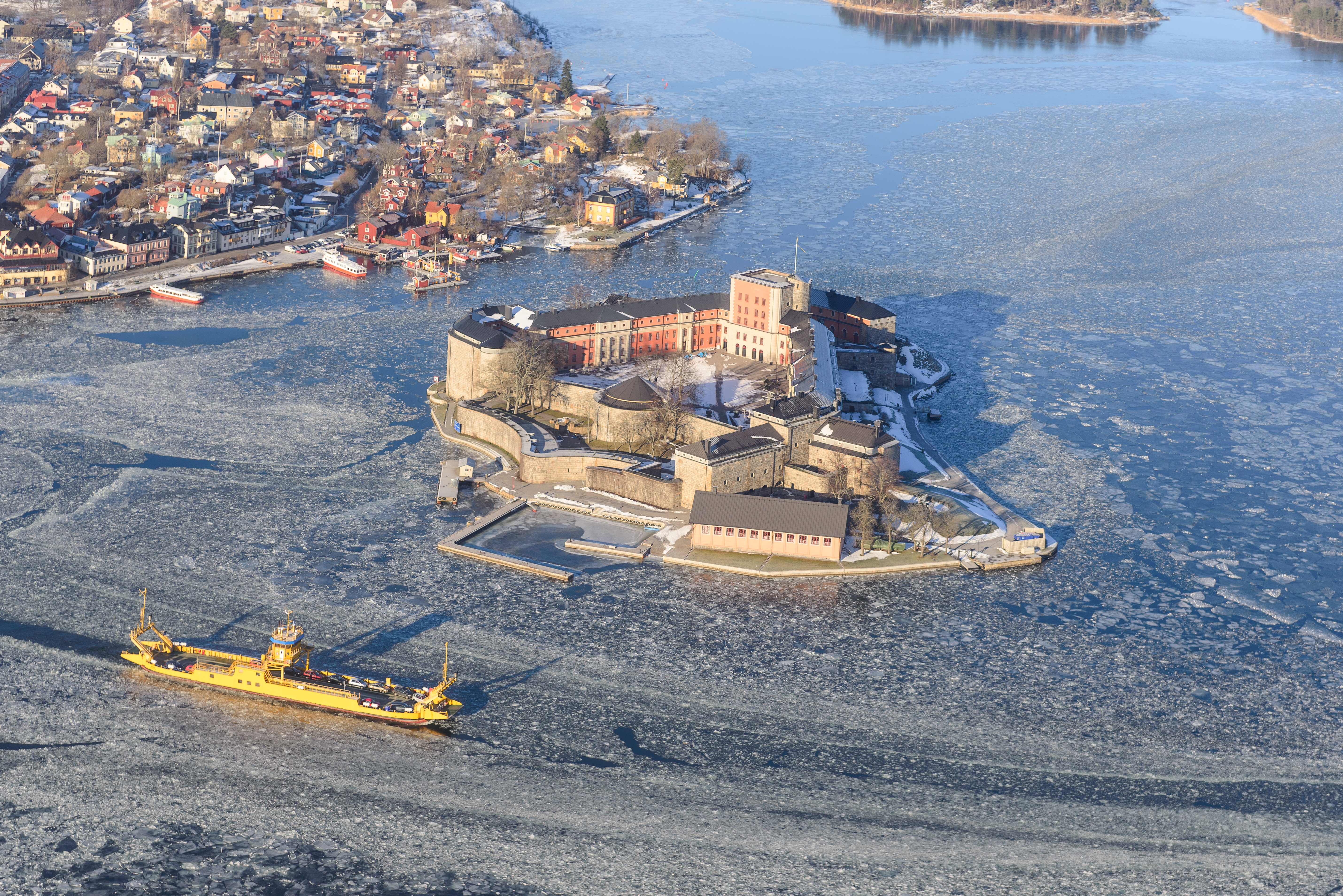 Ferry between Rindö and Vaxholm